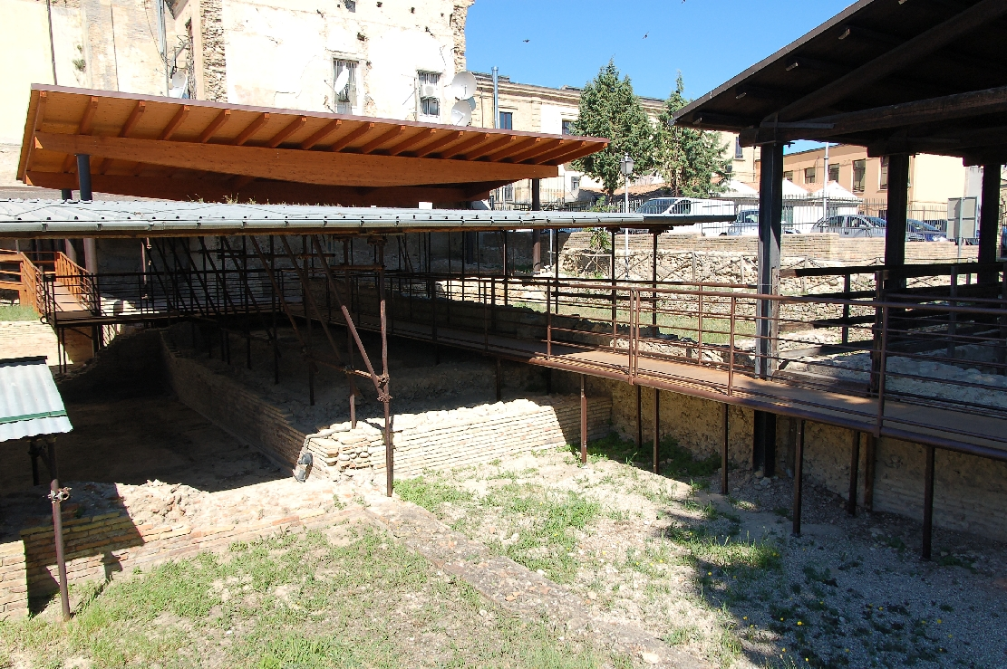 Vasto 2011